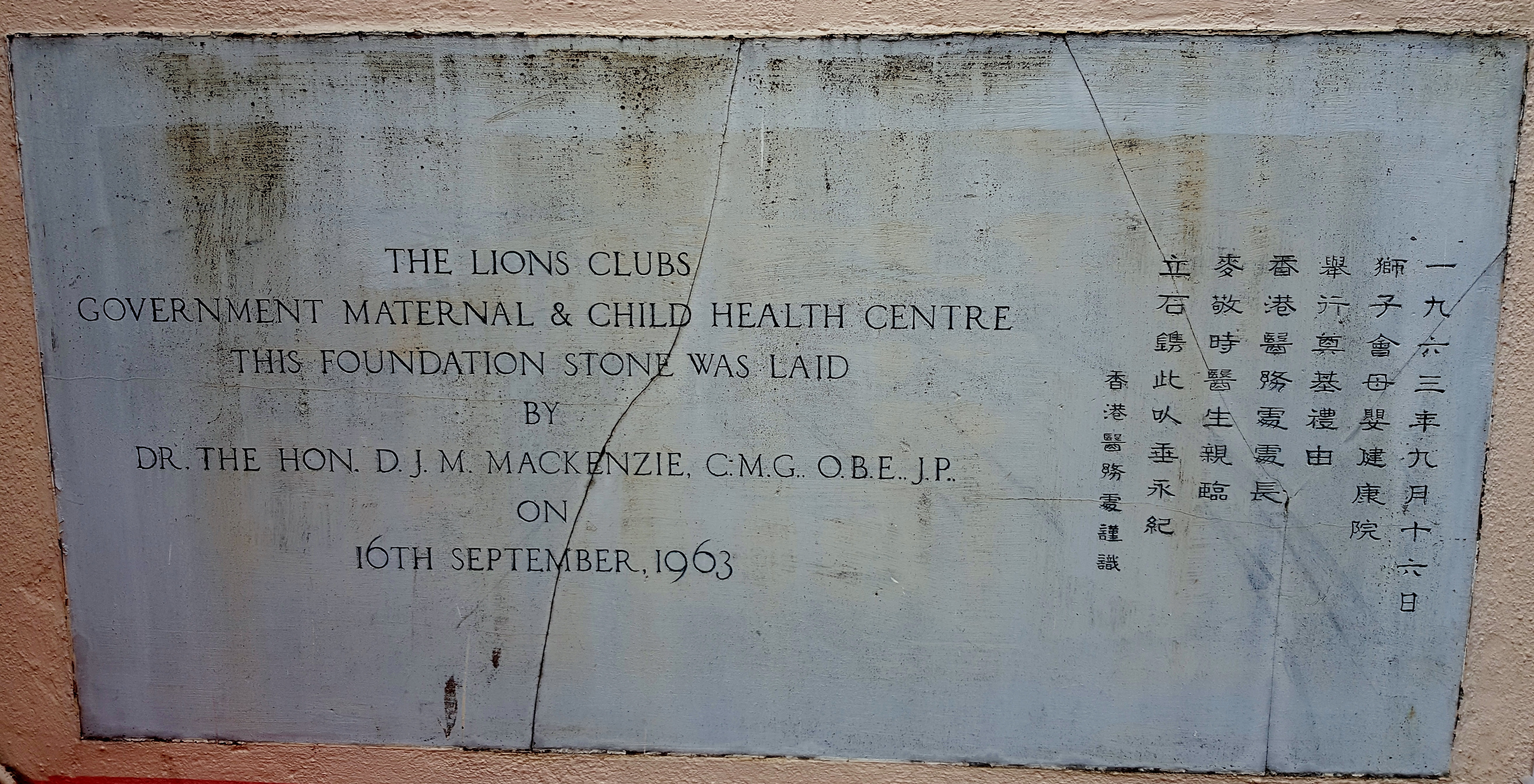 Foundation stone of the Lions Clubs Government Maternal & Child Health Centre in Kowloon City as laid by Dr. the Hon. D J M Mackenzie, C.M.G., O.B.E., J.P., Director of Medical and Health Services of Hong Kong, on 16th September 1963. 中文（香港）: 九龍城獅子會母嬰健康院奠基石，由香港醫務衛生總監麥敬時醫生，C.M.G., O.B.E., J.P.主持奠基